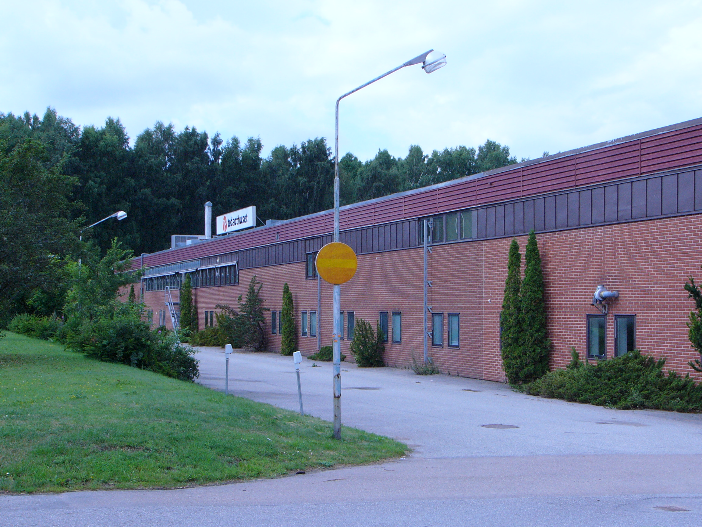 Former Extrafilm building in Tanumshede